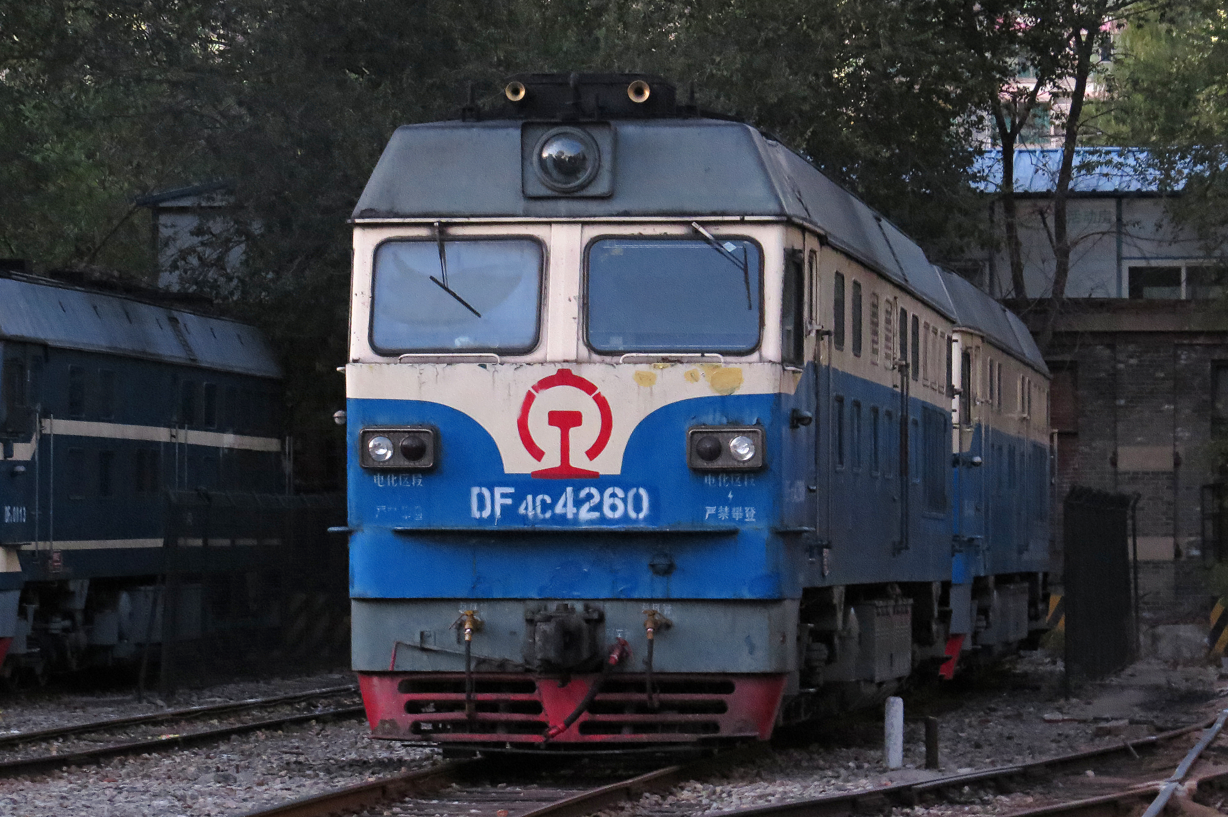 Taken while sunset.